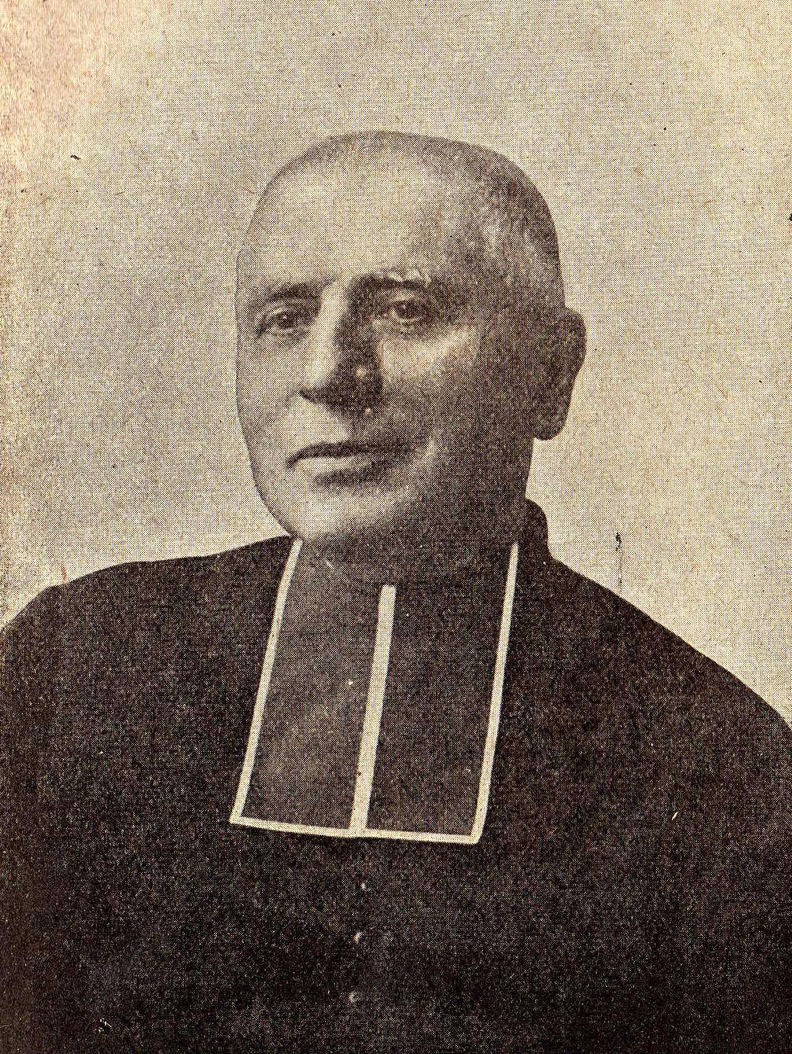 Justin Besson's portrait (taken from D'al brès a la toumbo, 4th ed., 1919)